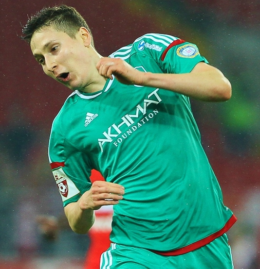 Daler Kuzyayev